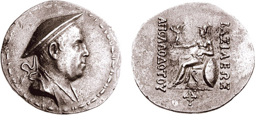 Coin of the Indo-Greek King Apollodotos I